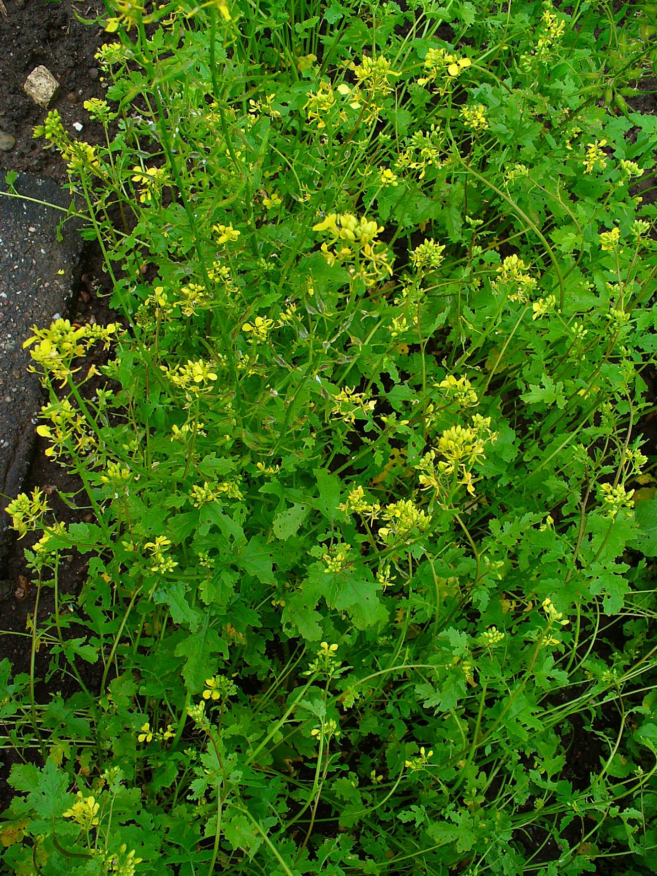 Sinapis alba, Brassicaceae, White Mustard, habitus. Botanical Garden KIT, Karlsruhe, Germany.